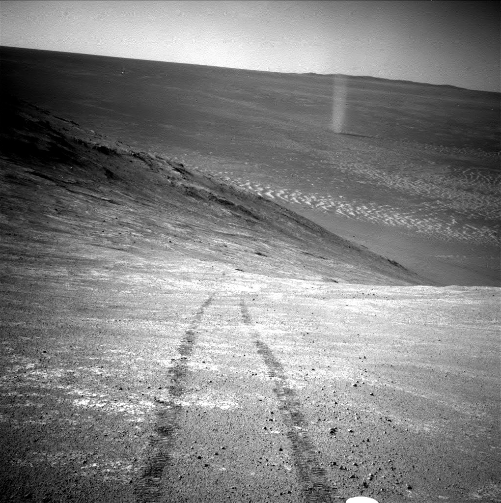 From its perch high on a ridge, NASA's Mars Exploration Rover Opportunity recorded this image of a Martian dust devil twisting through the valley below. The view looks back at the rover's tracks leading up the north-facing slope of "Knudsen Ridge," which forms part of the southern edge of "Marathon Valley."